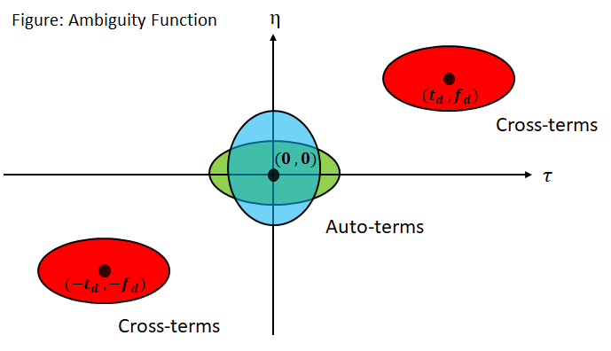 Ambiguity Funtion: auto-terms and cross-terms